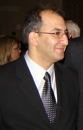 Farid Haerinejad, documentary maker, journalist